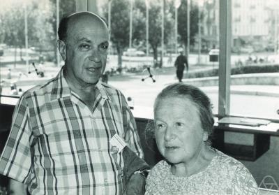 German-American mathematician Richard Brauer, with his wife Ilse Brauer, in 1970